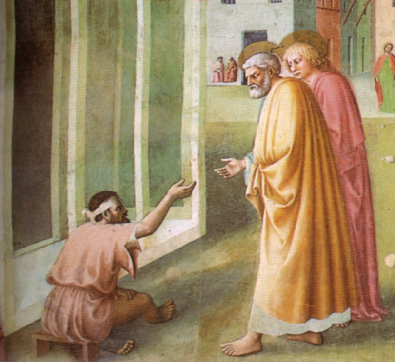 From Healing of the Cripple and Raising of Tabitha by Masolino da Panicale